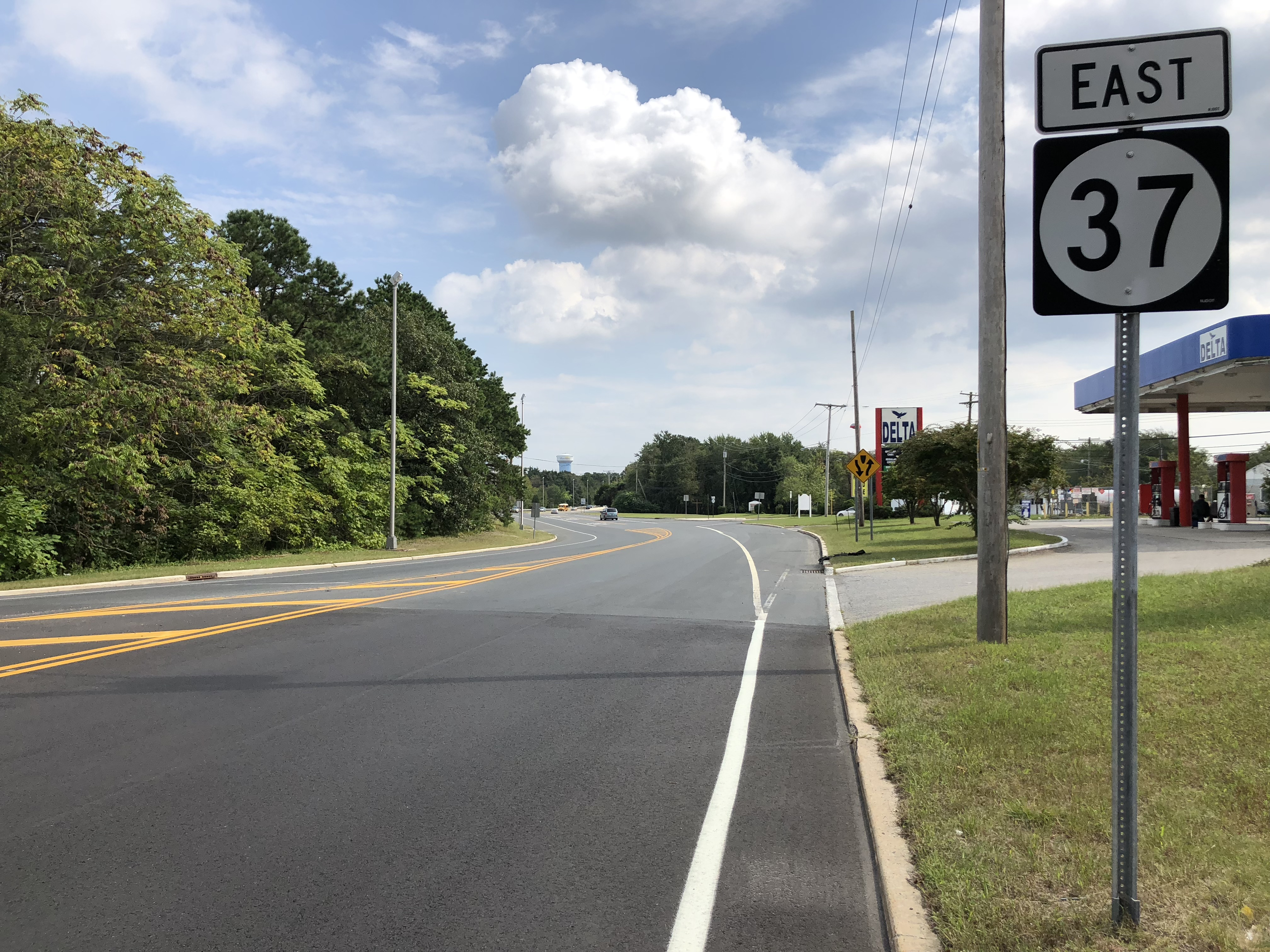 View east along New Jersey State Route 37 (Lakehurst Road) just east of New Jersey State Route 70 in Lakehurst, Ocean County, New Jersey